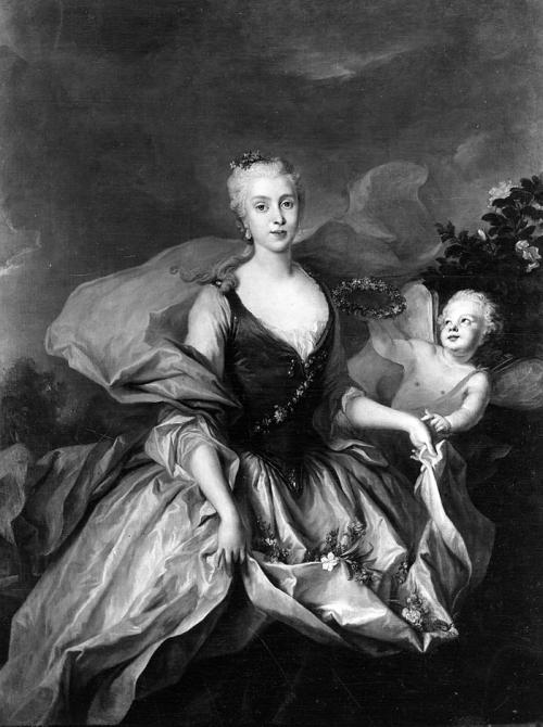 Presumed portrait of Maria Amalia of Saxony (1724-1760), misidentified with her sister Maria Josepha, Dauphine of France (1731-1767)